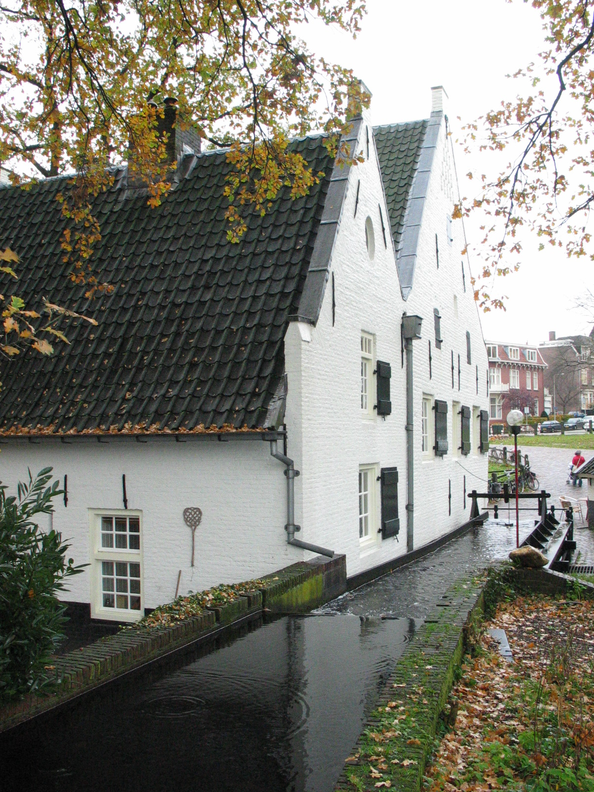 White watermill in Arnhem, Sonsbeek Parc